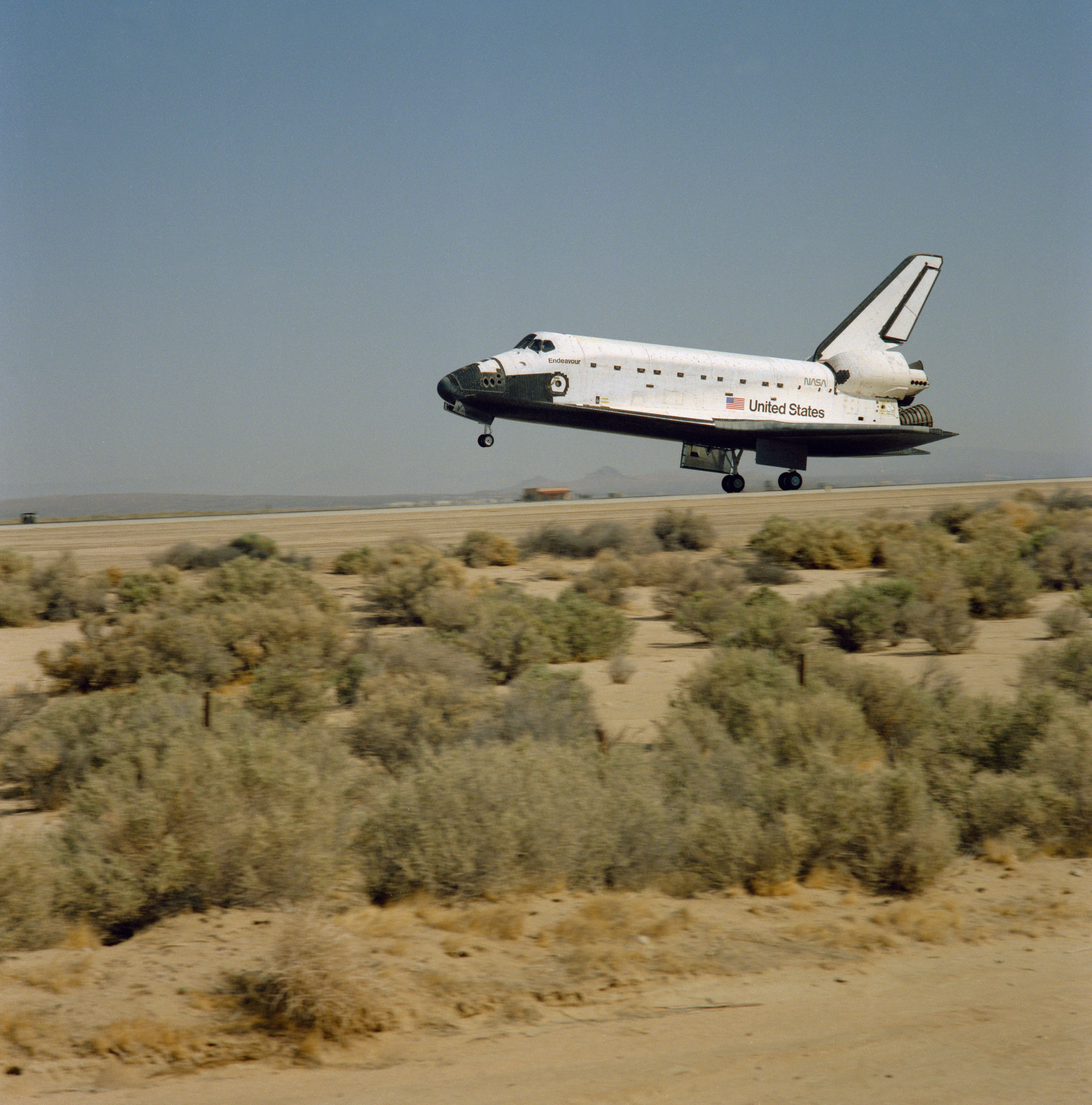 The main landing gear of the Space Shuttle Endeavour touches down at Edwards Air Force Base to complete the 11 day STS-59/SRL-1 mission. Landing occurred at 9:54 a.m., April 20, 1994. Mission duration was 11 days, 5 hours, 49 minutes.